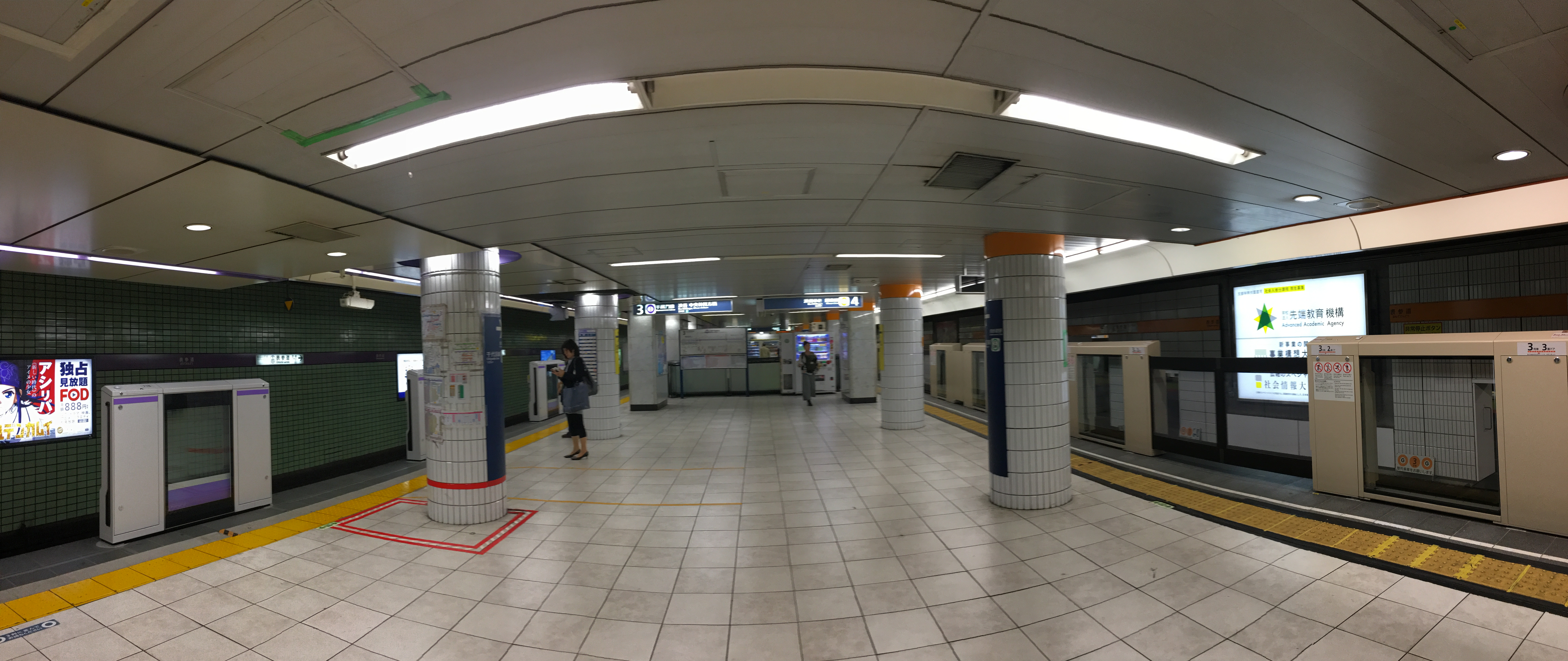 表参道駅のホーム (Omotesando station platforms)